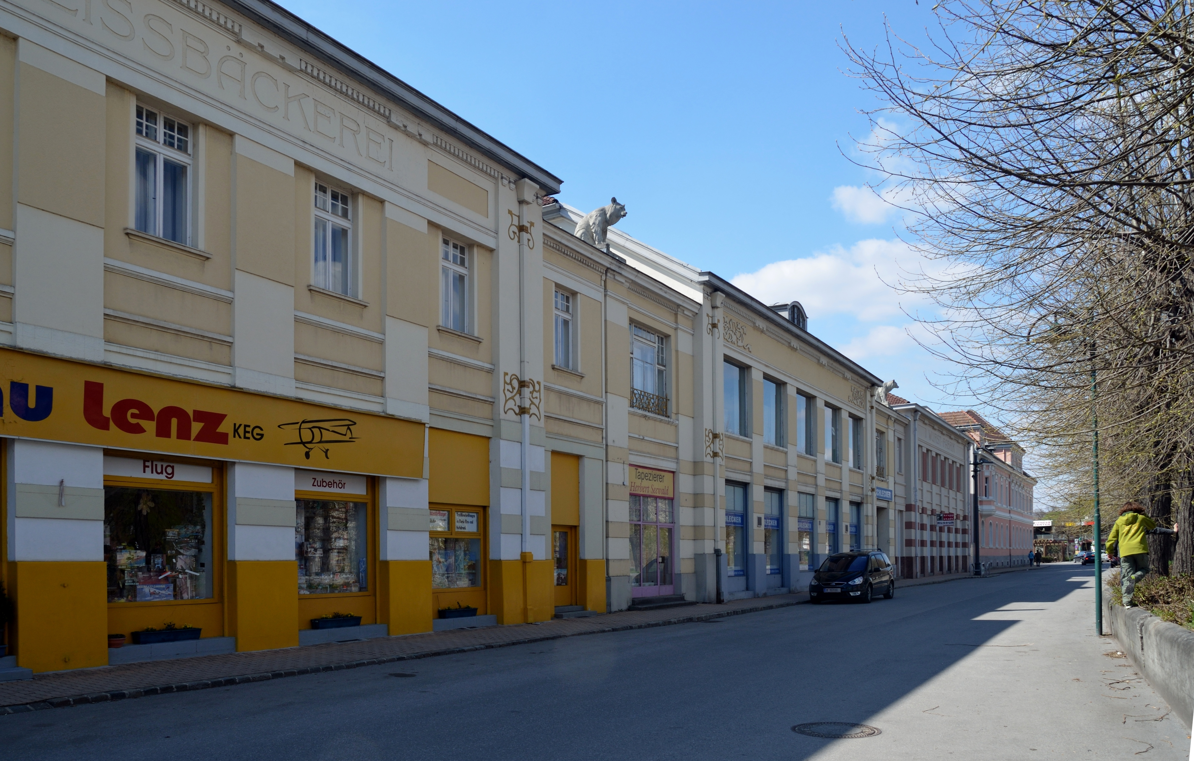 The former food factory and consumer cooperative, bread and sausage factory of the Berndorfer Metallwarenfabrik (Arthur Krupp), built by Oskar Laska and Viktor Fiala in 1904/1908. View along Bahnhofstraße. The ensemble is protected as a cultural heritage monument.